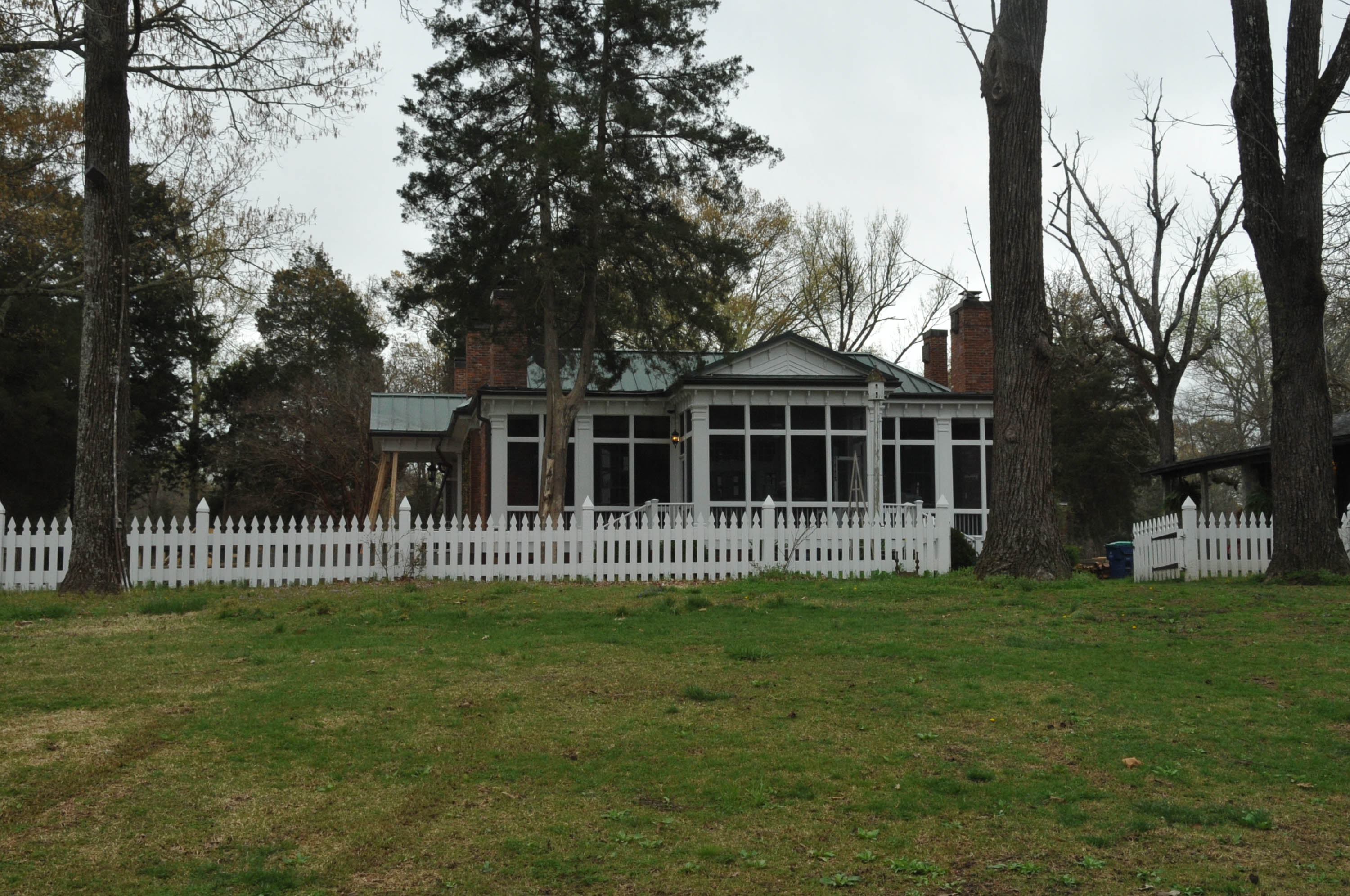 AKA CEDAR LANE FARM - DATE TO CIRCA 1842 WITH NUMEROUS ALTERATION SOME OF WHICH ARE GOING ON PRESENTLY. DR. BAILEY WAS A PROMINENT DOCTOR AND PLANTER OF THE 3RD QUARTER OF THE 19TH CENTURY